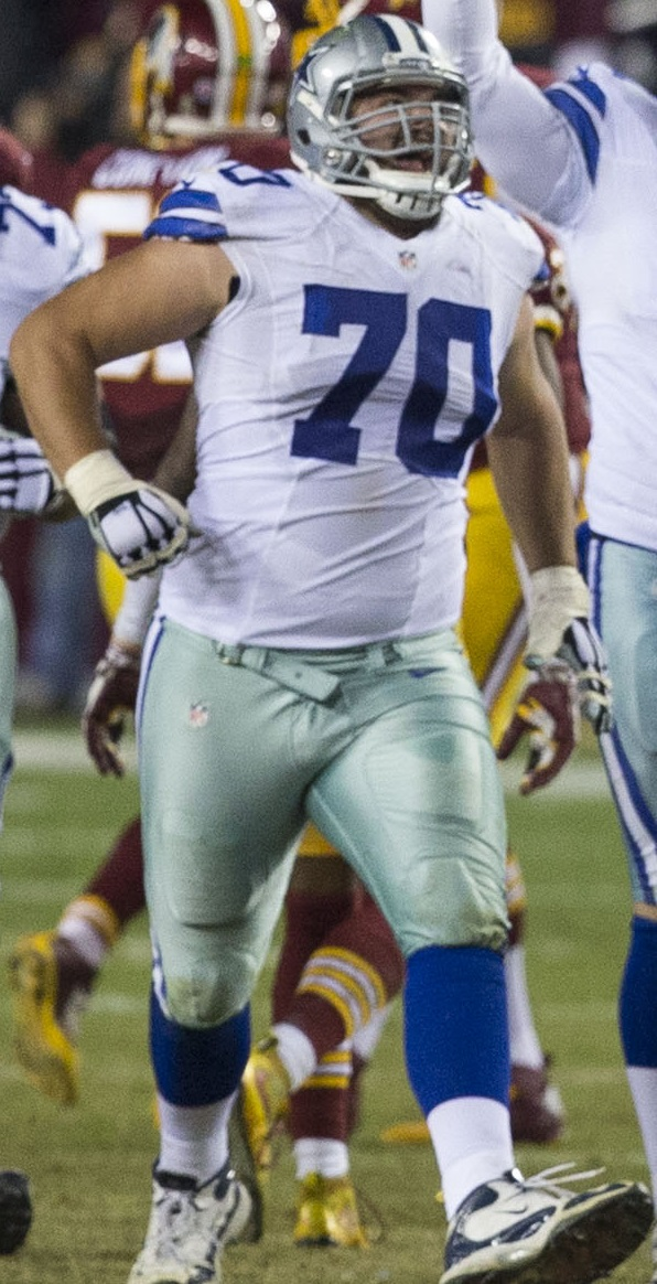 Cowboys at Redskins 12/7/15